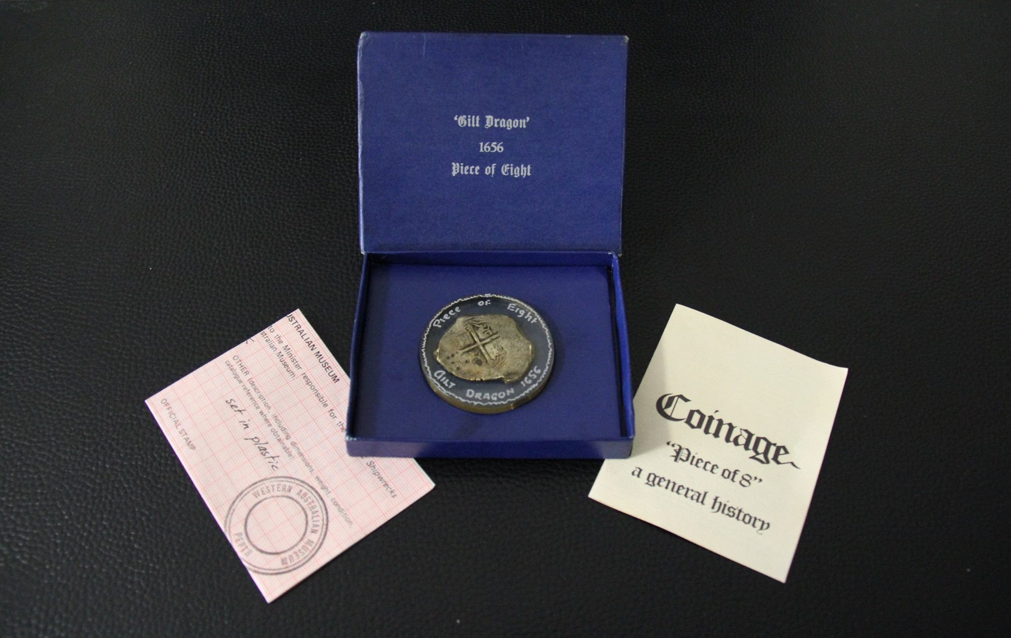 Coin from the Vergulde Draeck reproduced by Alan Robinson as a presentation piece